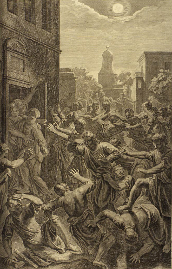 The Sodomites are smitten with blindness, as in Genesis 19:11; illustration from the 1728 Figures de la Bible; illustrated by Gerard Hoet (1648-1733) and others, and published by P. de Hondt in The Hague; image courtesy Bizzell Bible Collection, University of Oklahoma Libraries